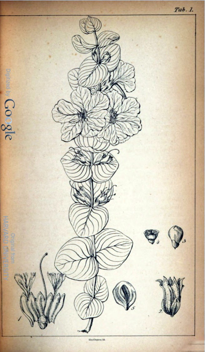 Plate 1 from Sertum Plantarum - Diplusodon decussatus Gardner & Fielding - Lythraceae